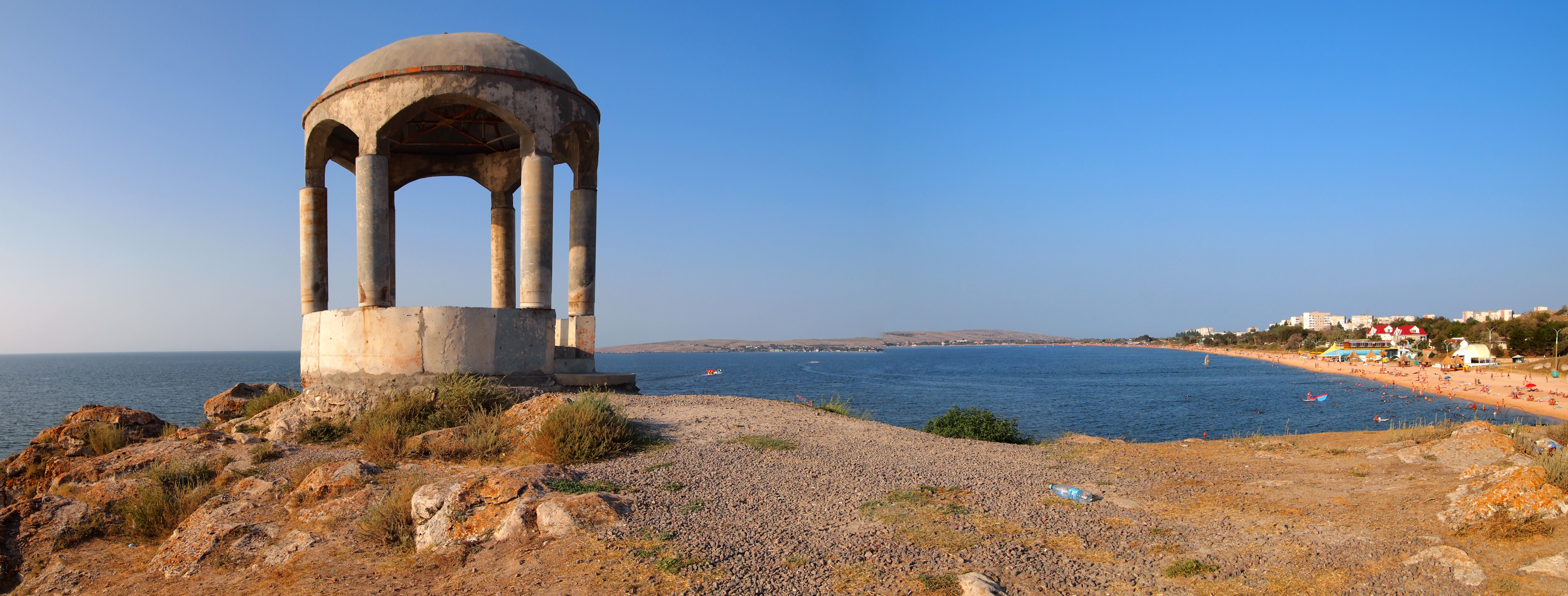 Monument in Shcholkine. On the background is Sea of Azov. This photograph was taken with an Olympus E-PL1